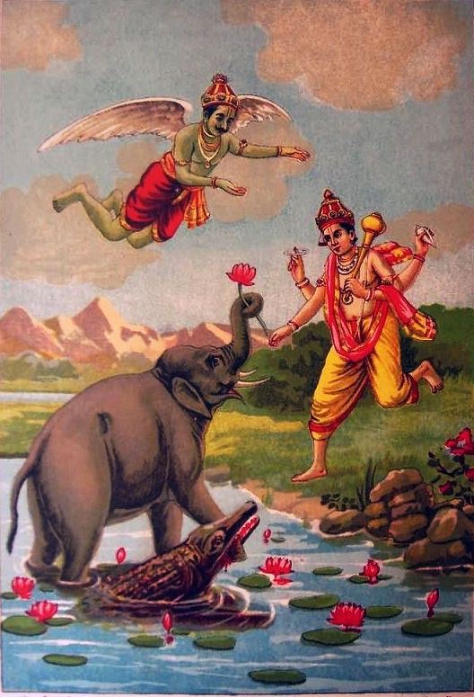 Gajendra Moksha Chitrashala Press, Poona. 1910's SIZE: 10in x 14in CONDITION: Very Good. Condition as per the scan Gajendra was the King of elephants. One hot day, he proceeded to the lake with his family to cool off in its fresh waters. But from within the lake a crocodile appeared who attacked him and would not let go of him. When the family and relatives saw ‘death’ coming close to Gajendra, and everyone realised that everything was lost, they left Gajendra alone. Gajendra prayed: ‘Please help me O Lord! Save me from the clutches of Death! It is said that if one recites the Gajendra Prayer, one achieves liberation and freedom from frightening dreams! The Lord rushed to Gajendra’s aid. The latter offered the Lord a lotus flower. God attacked the crocodile and saved His Loved One. The symbolism so far: Man is Gajendra The world, is the lake where he plays the game of life with family and others. The crocodile is ‘Death and Difficulties’ which attack man. The Lesson: Neither family nor friend can liberate one from the clutch of death. God answers your prayers.